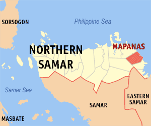 Map of Northern Samar showing the location of Mapanas